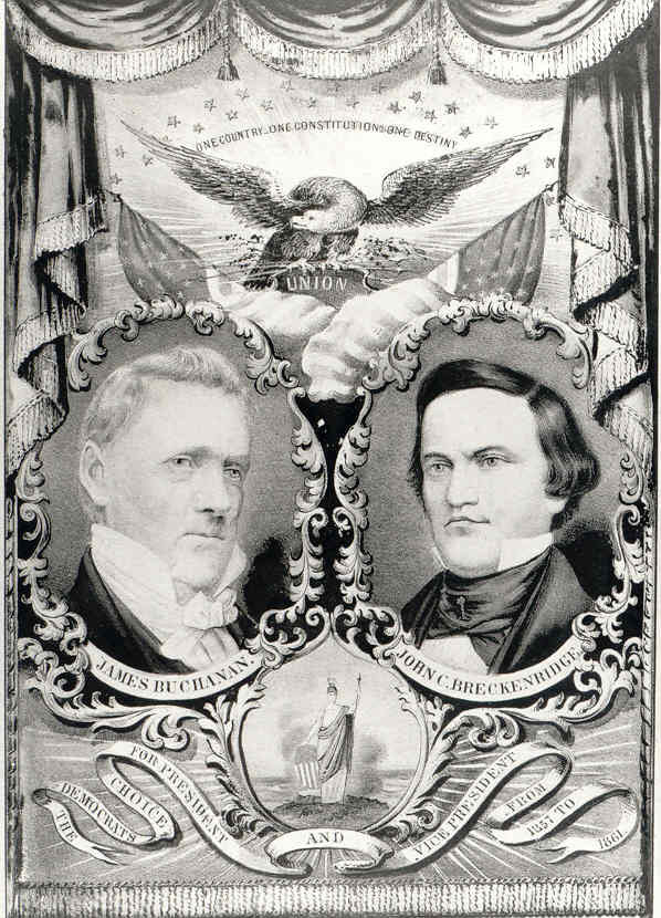 Campaign poster showing head-and-shoulders portraits of James Buchanan and John C. Breckinridge